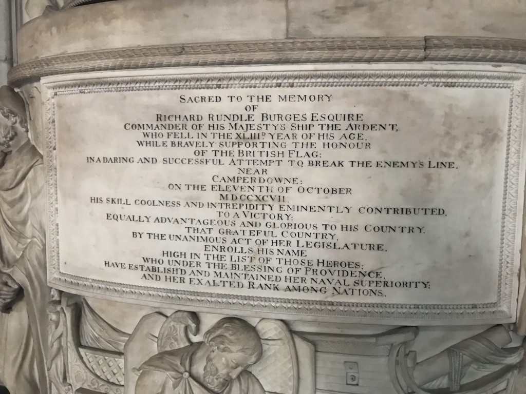 Monument to Capt. Richard Rundle Burges (1754-1979) in St. Paul's Cathedral, London. The engraving reads: Sacred to the memory of Richard Rundle Burges Esquire Commander of His Majesty's ship the Ardent who fell in the XLIIId (43rd) year of his age, while bravely supporting the honour of the British flag; in a daring and successful attempt to break the enemy's line, near Camperdowne: on the 11th of October MDCCXCVII (1797). His skill coolness and intrepidity eminently contributed, to a victory: equally advantageous and glorious to his country. That grateful country, by the unanimous act of her legislature, enrolls his name high in the list of those heroes; who under the blessing of providence, have established and maintained her naval superiority; and her exalted rank among nations.